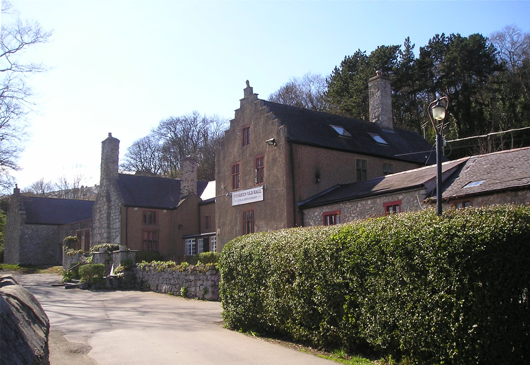 Photograph taken by me Noel Walley